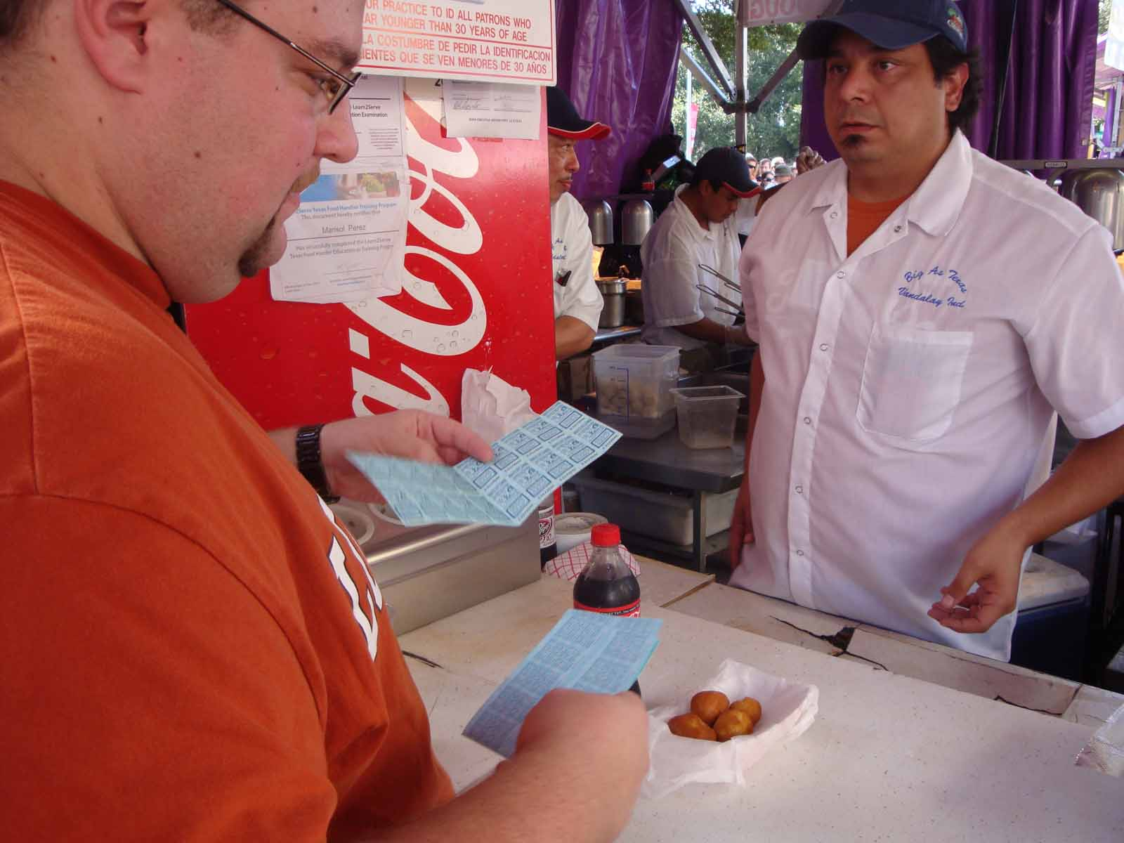 Buying deep-fried butter at the State Fair of Texas, 2009